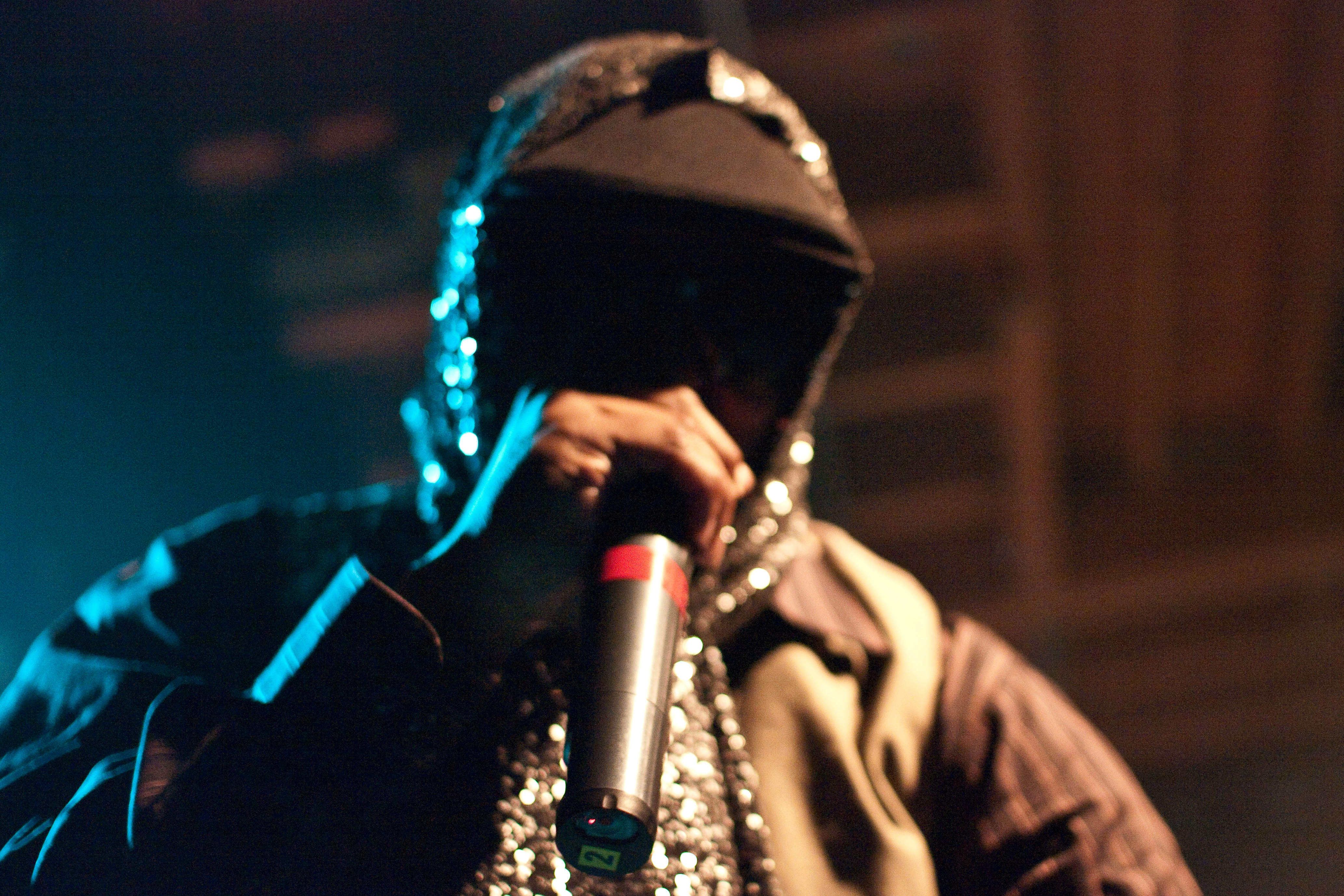 Kool Keith (aka Dr. Octagon, aka Keith Matthew Thornton) performing at Mezzanine in San Francisco, California for the 2009 Noise Pop Festival - February, 2009